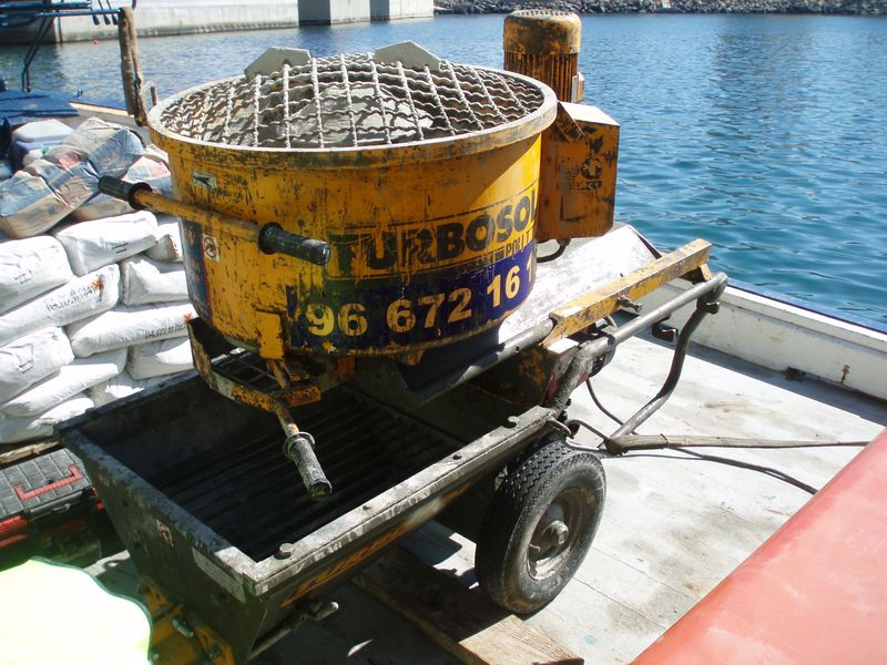 concrete pump